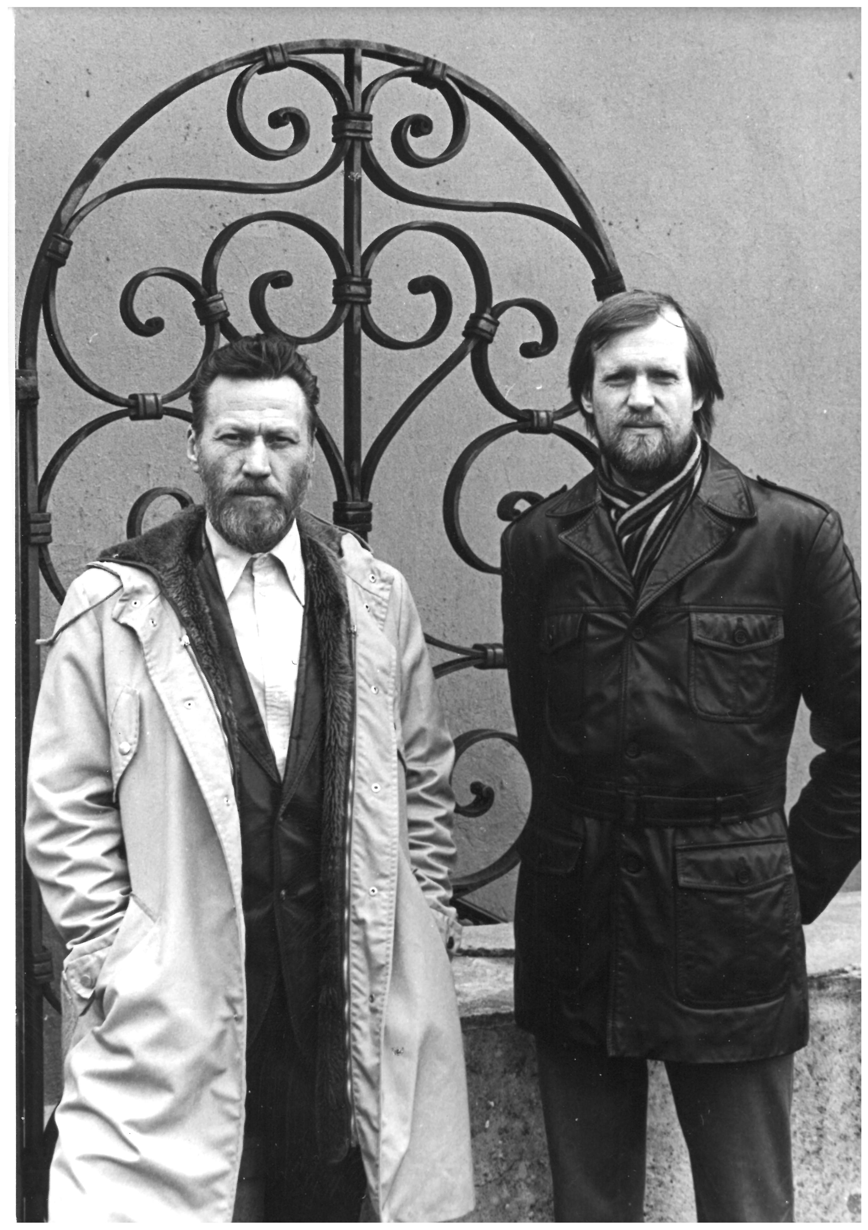 Estonian metal artists Heino Müller and Tõnu Lauk.